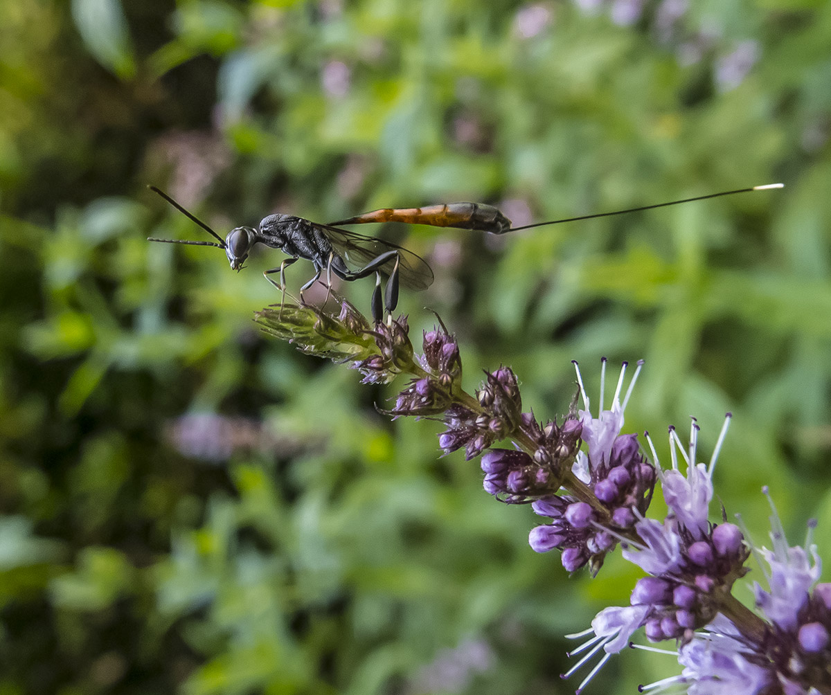 Gasteruption jaculator near Enschede, The Netherlands